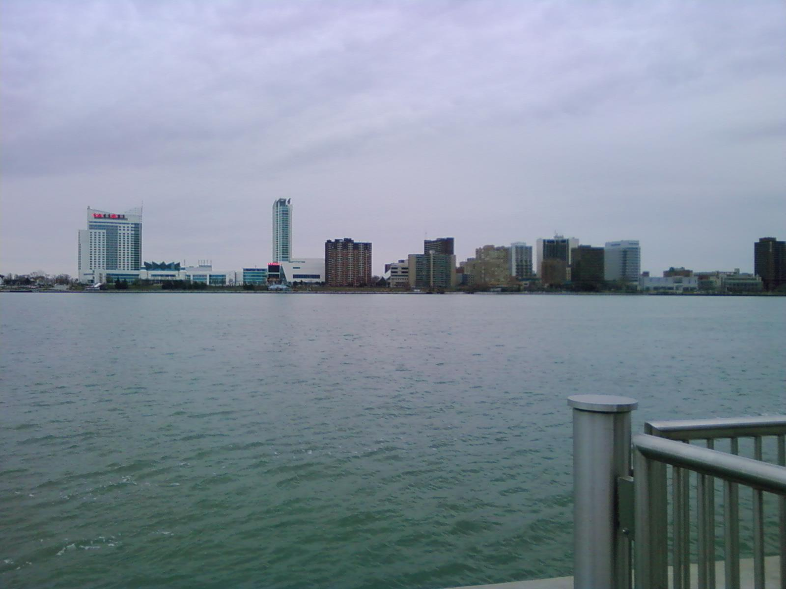 Windsor skyline from the Detroit International Riverfront